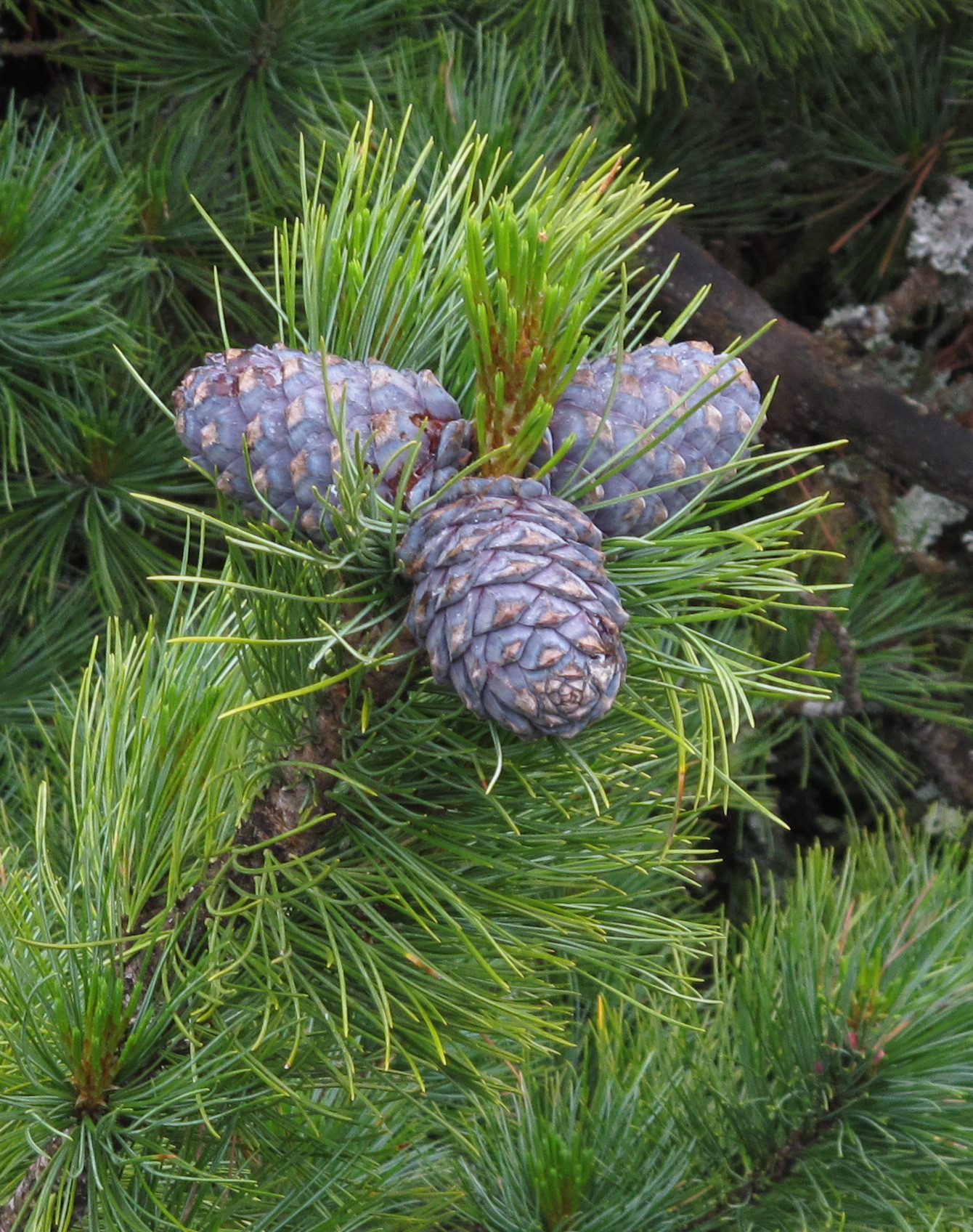 Swiss pine (Pinus cembra) in the area between Silvaplana and Sils Maria, Upper Engadine, Switzerland